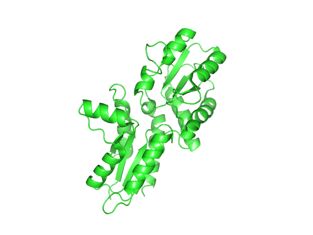 Cobalt chelatase monomeric unit from Desulvobrio vulgaris. Crystal structure created in Pymol based on data from Romao et al, (2011) Proc. Natl. Acad. Sci. 108, 97-102.